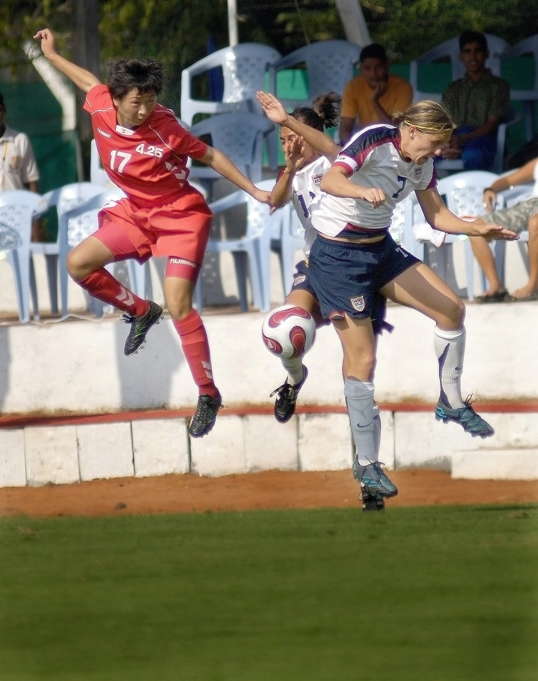 Ill Ok Jang, Democratic Peoples Republic Korea, U.S. Army Capt. Emily Nay, and U.S. Air Force Capt. Wendy Emminger all scramble for the soccer ball during the first women\'s soccer match of the Military World Games in Hyderabad, India, Oct. 14, 2007. The Conseil Internationale du Sport Militaire\'s Military World Games event is the largest international military Olympic-style event in the world. (U.S. Air Force photo by Tech. Sgt. Cecilio Ricardo Jr.)